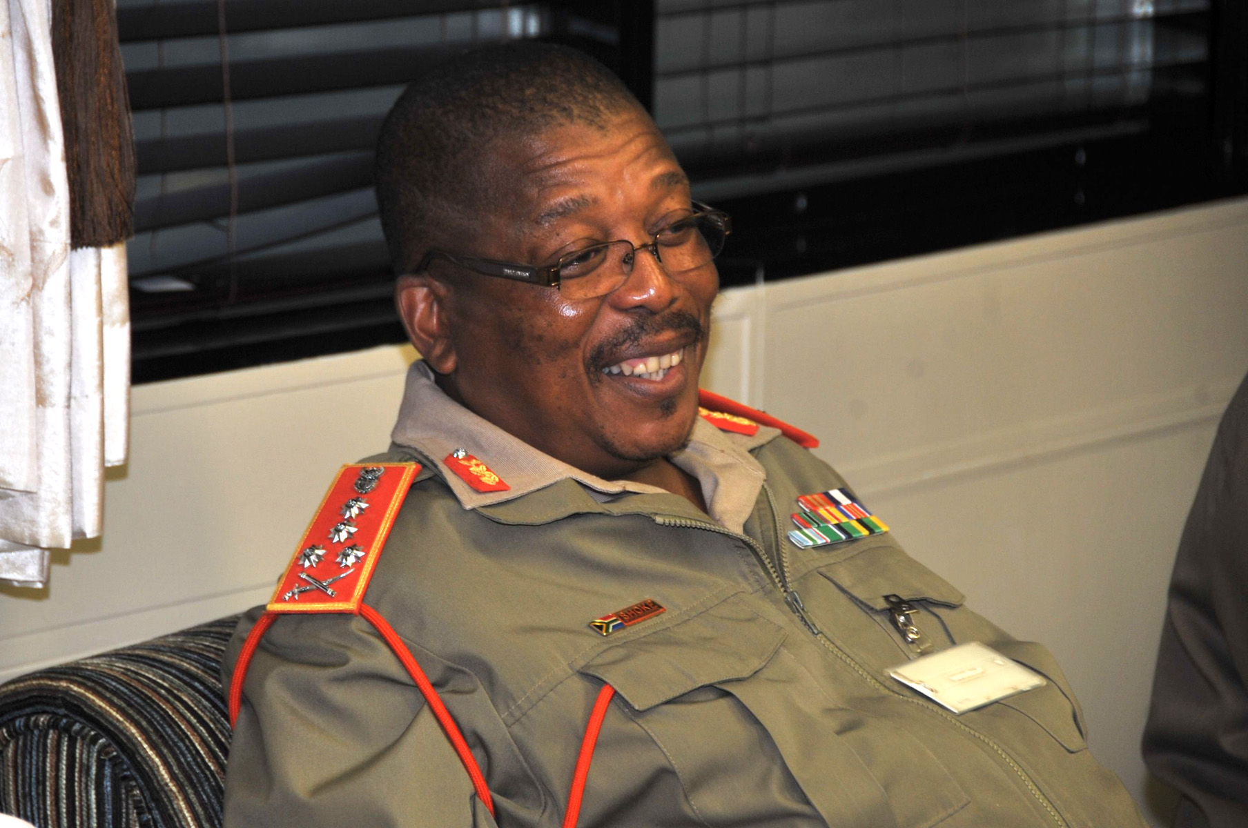 PRETORIA, SOUTH AFRICA -- Marine Corps Sgt. Maj. Bryan Battaglia, Senior Enlisted Advisor to the Chairman (SEAC), visited the South Africa SEAC and service senior enlisted advisors in Pretoria April 23. This was just one of many of the SEAC's stops April 23 as part of his visit throughout Africa Command. (DoD photo by Army Master Sgt. Terrence L. Hayes)